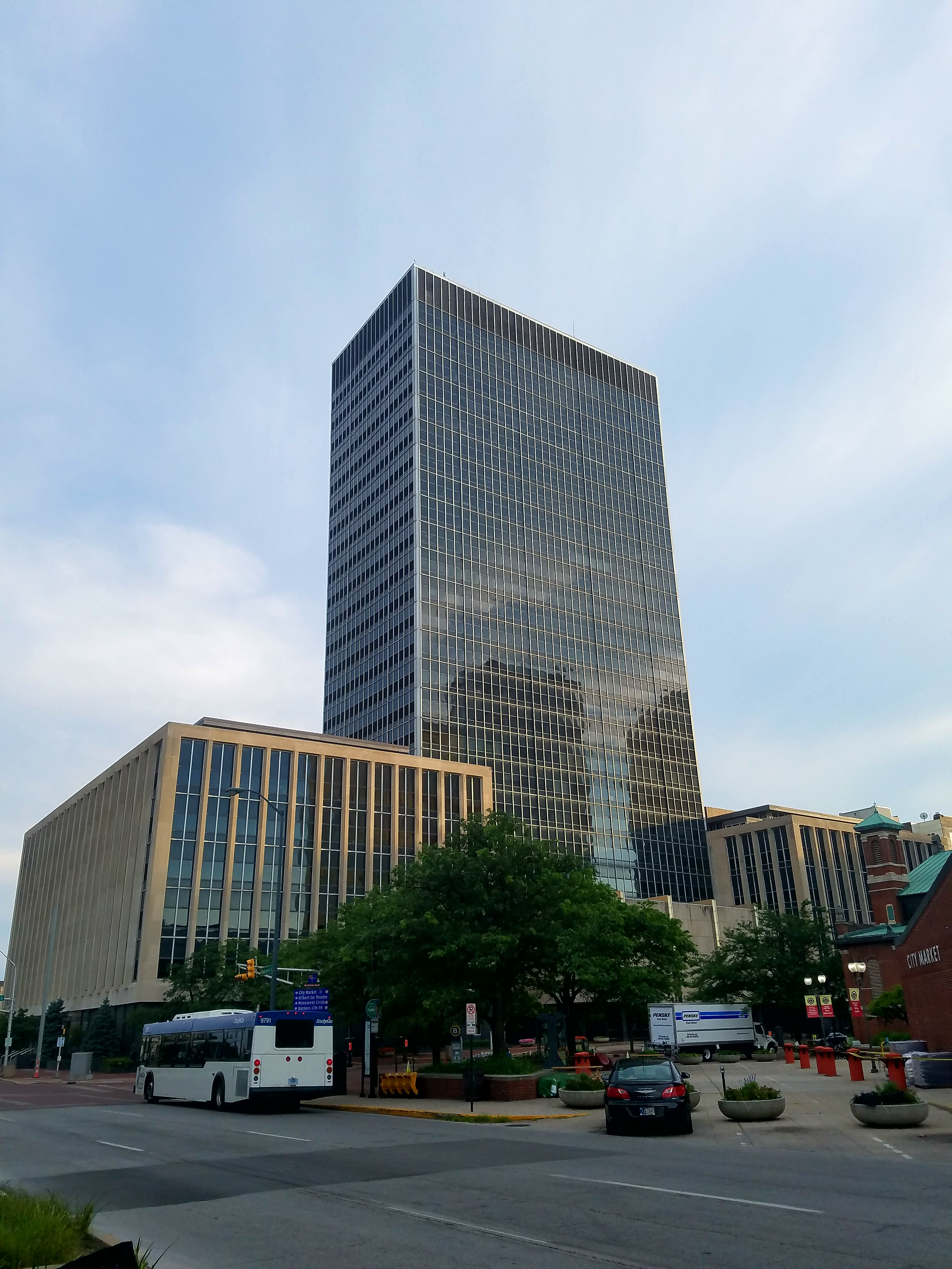 The City-County Building is home to the consolidated government of Indianapolis and Marion County, Indiana, including the courts and Indianapolis Metropolitan Police Department. This photo was captured near the corner of North Alabama Street and East Market Street, looking southwest.